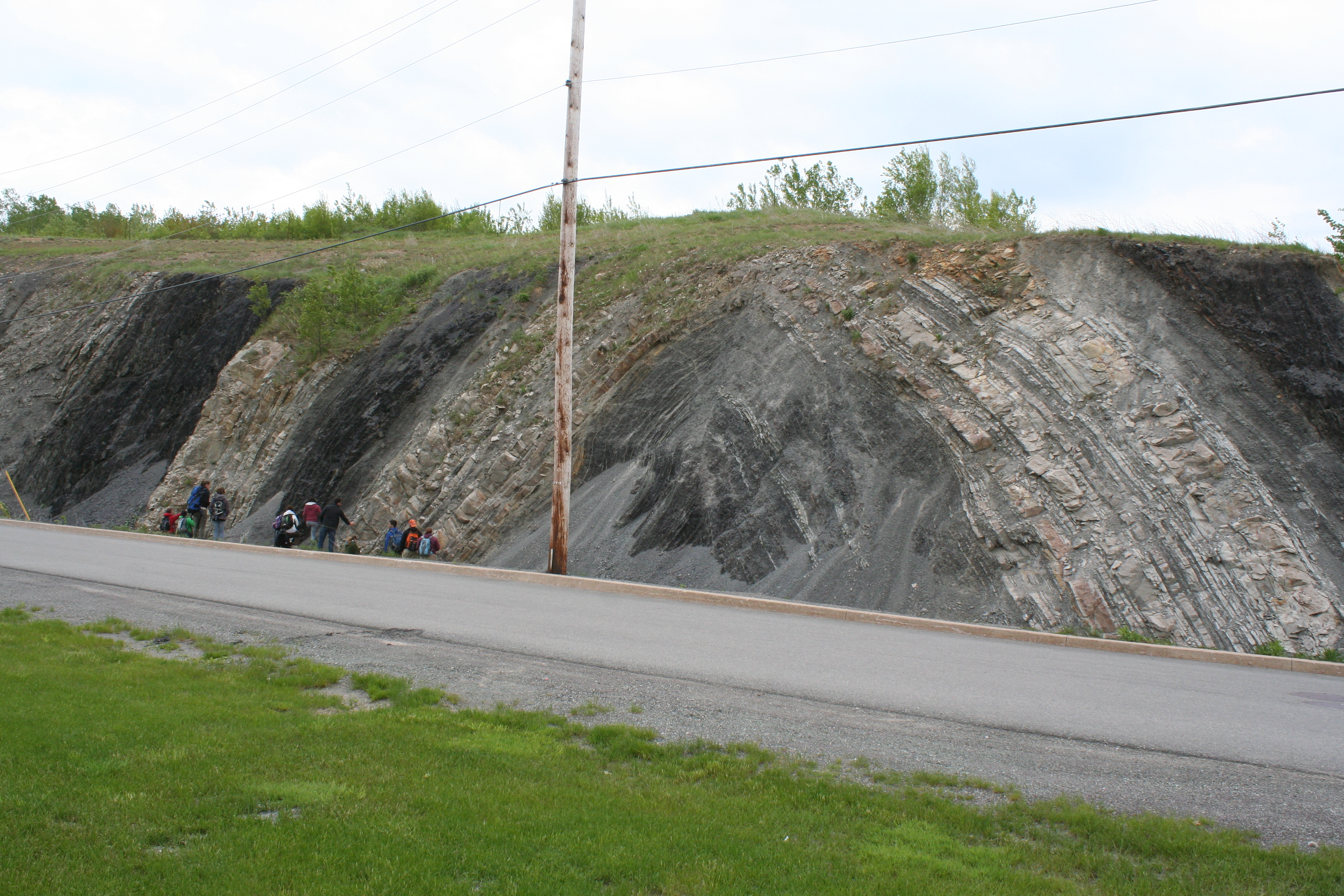 Anticline in the Stellarton Formation (Pennsylvanian) behind the Walmart in New Glasgow, Nova Scotia.